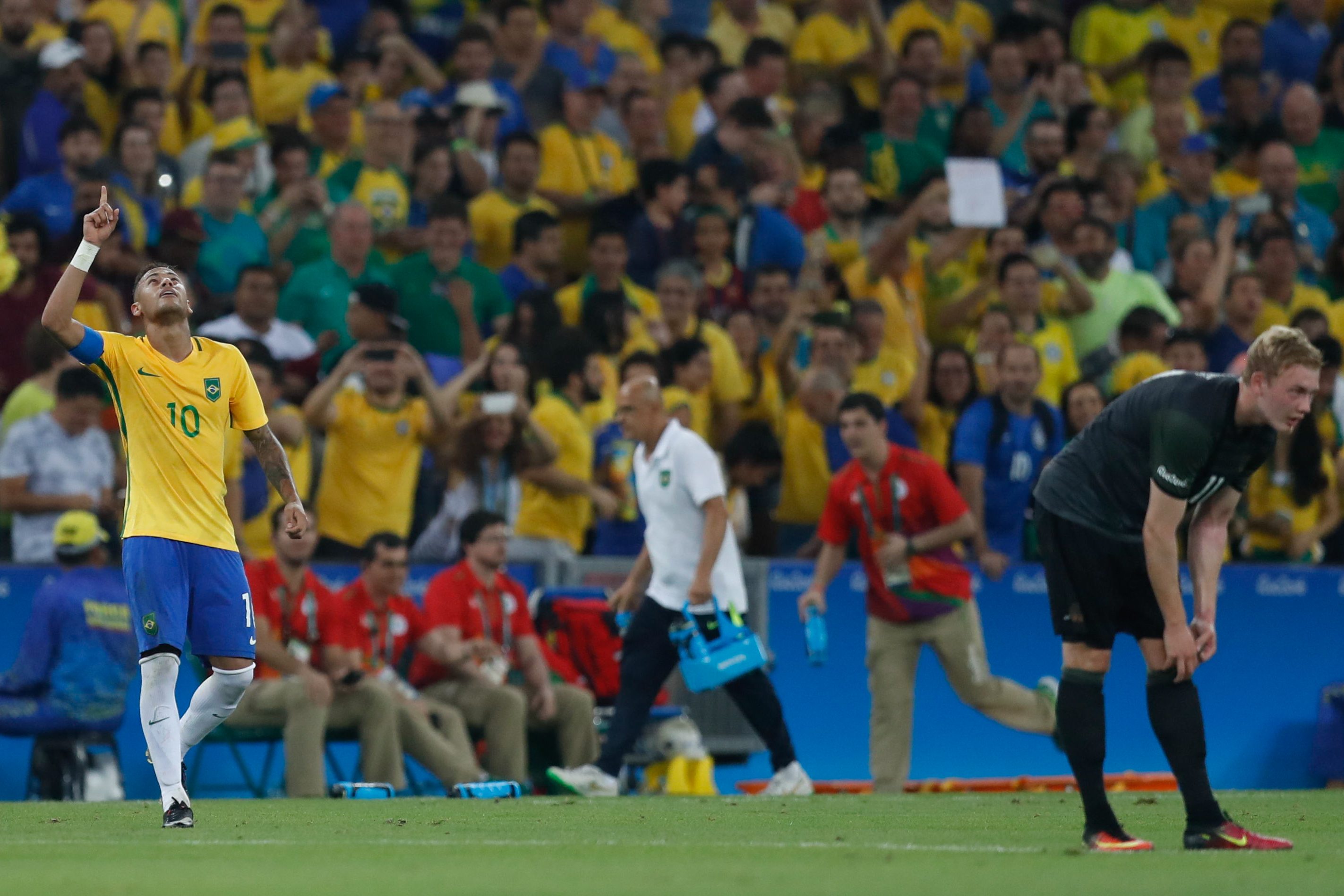 Rio de Janeiro - Brasil e Alemanha disputam a medalha de ouro no futebol masculino (Fernando Frazão/Agência Brasil)